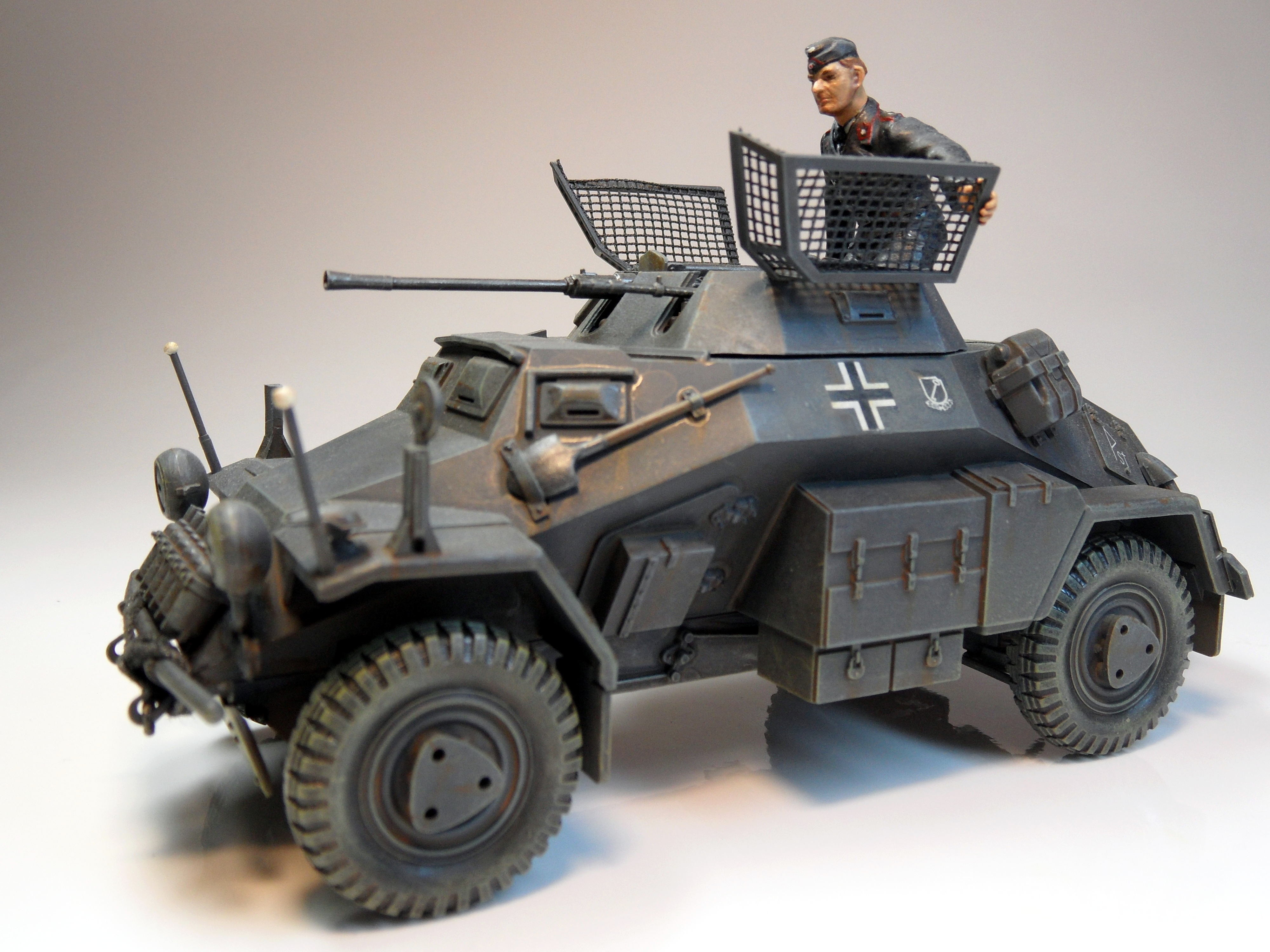 More pictures of My Toy Museum at Flickr. Most of those toys do still have copyrights so i can't publish them here! 1/35 Sdkfz 222 - When I had hard time in 2002